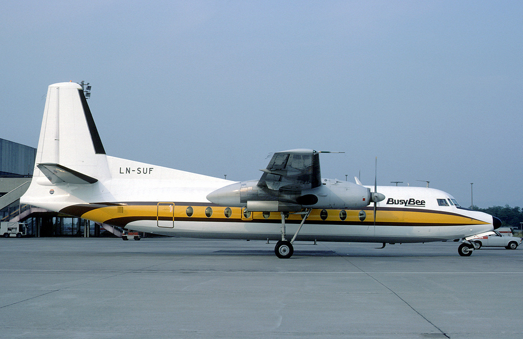 Busy Bee SAFE LN-SUF Fokker F27-100 at Basel Airport in June 1982